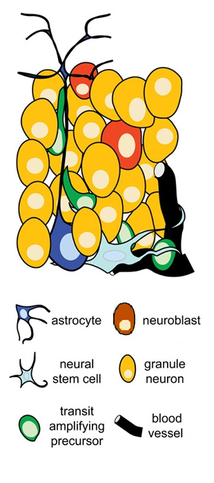 A color diagram of a section of the subgranular zone, showing the arrangement of neural stem cells, transit amplifying cells, neuroblasts, granule cells, astrocytes, and blood vessels.